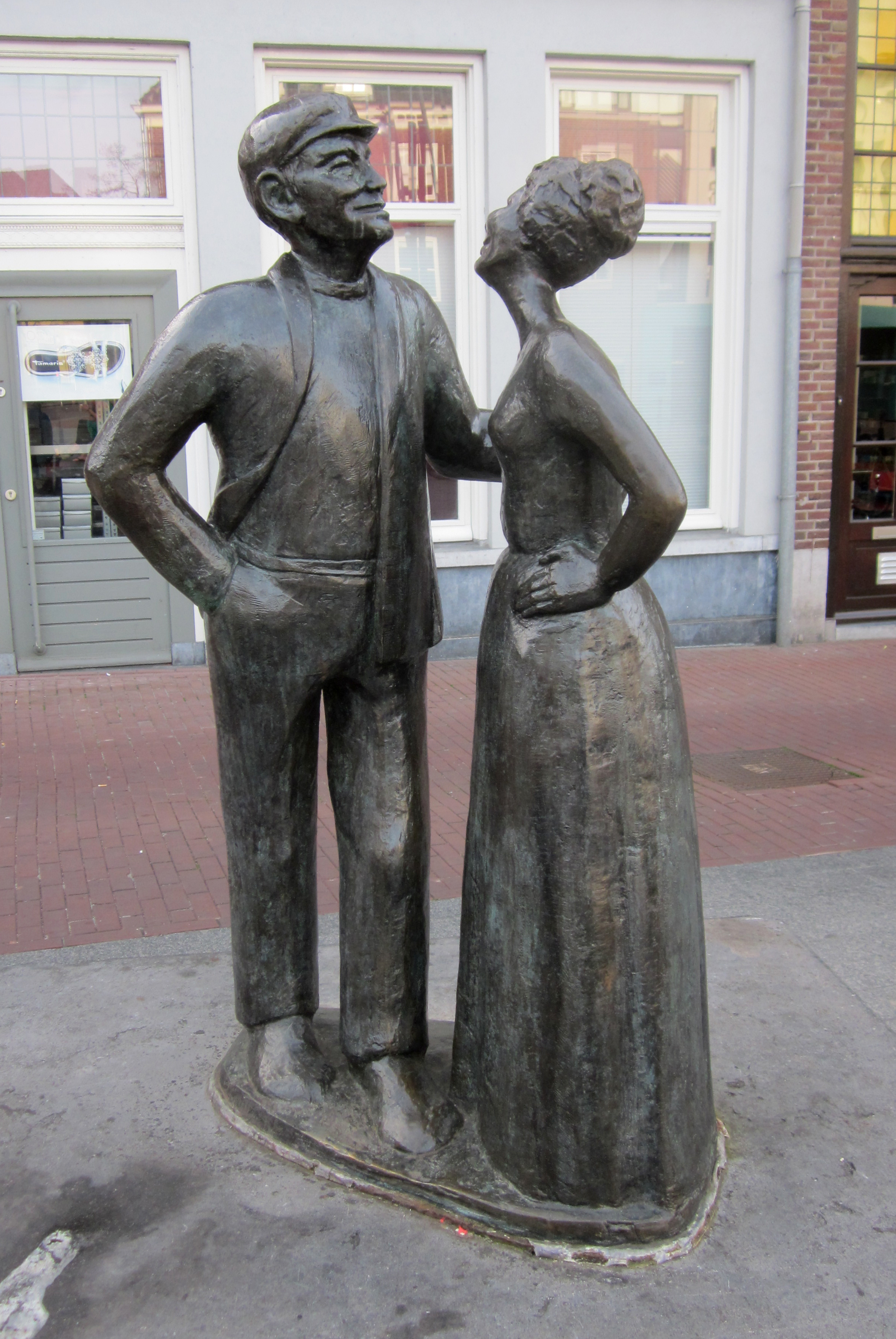 Statue "Janus en Bet" by Jesualda Kwanten in 1974. Placed at the bridge over the Dieze in the Visstraat in Den Bosch. Janus and Bet were two characters who appeared daily in a local newspaper column.